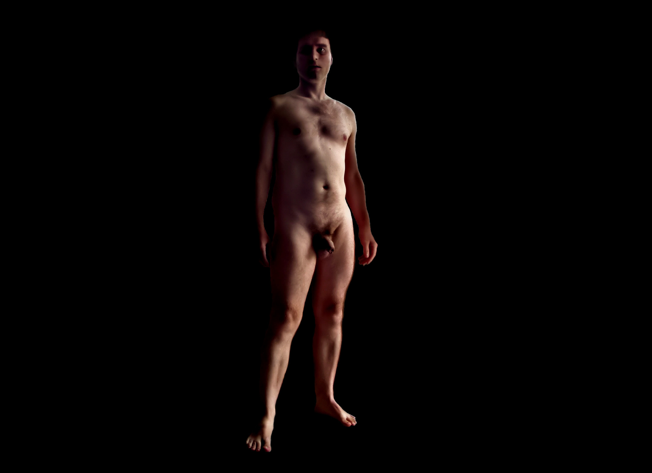 The dark side of force